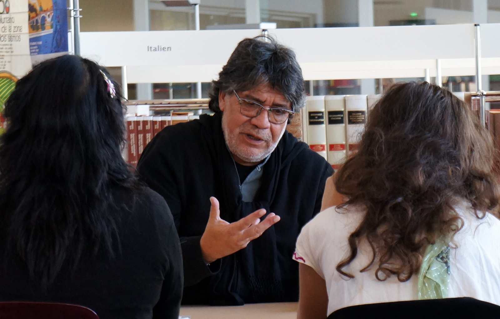 Luis Sepúlveda - CRL - Université Toulouse Le Mirail - octobre 2013